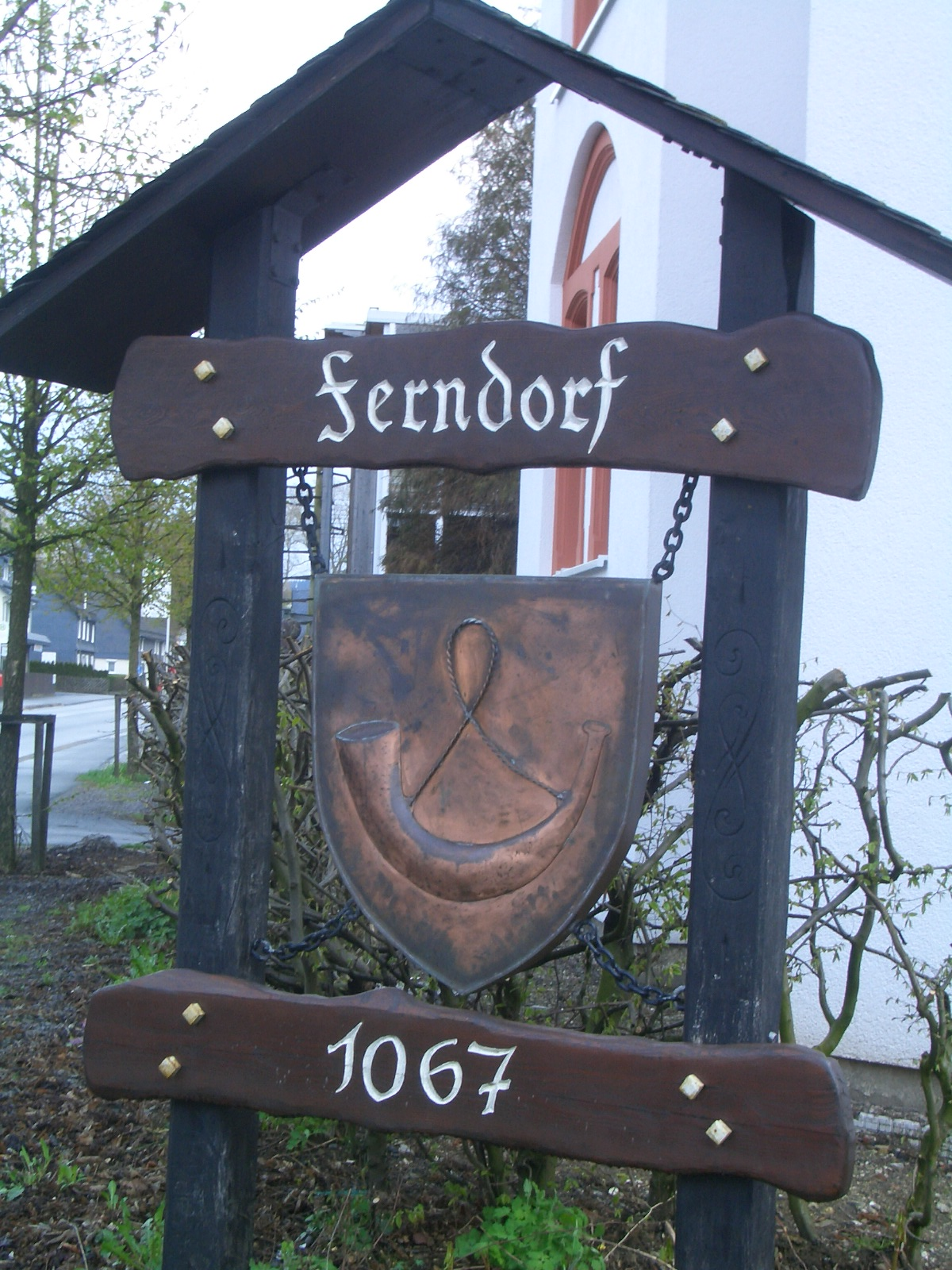 Coat of arms of Ferndorf (Kreuztal), placed at the village's entrance from Kreuztal